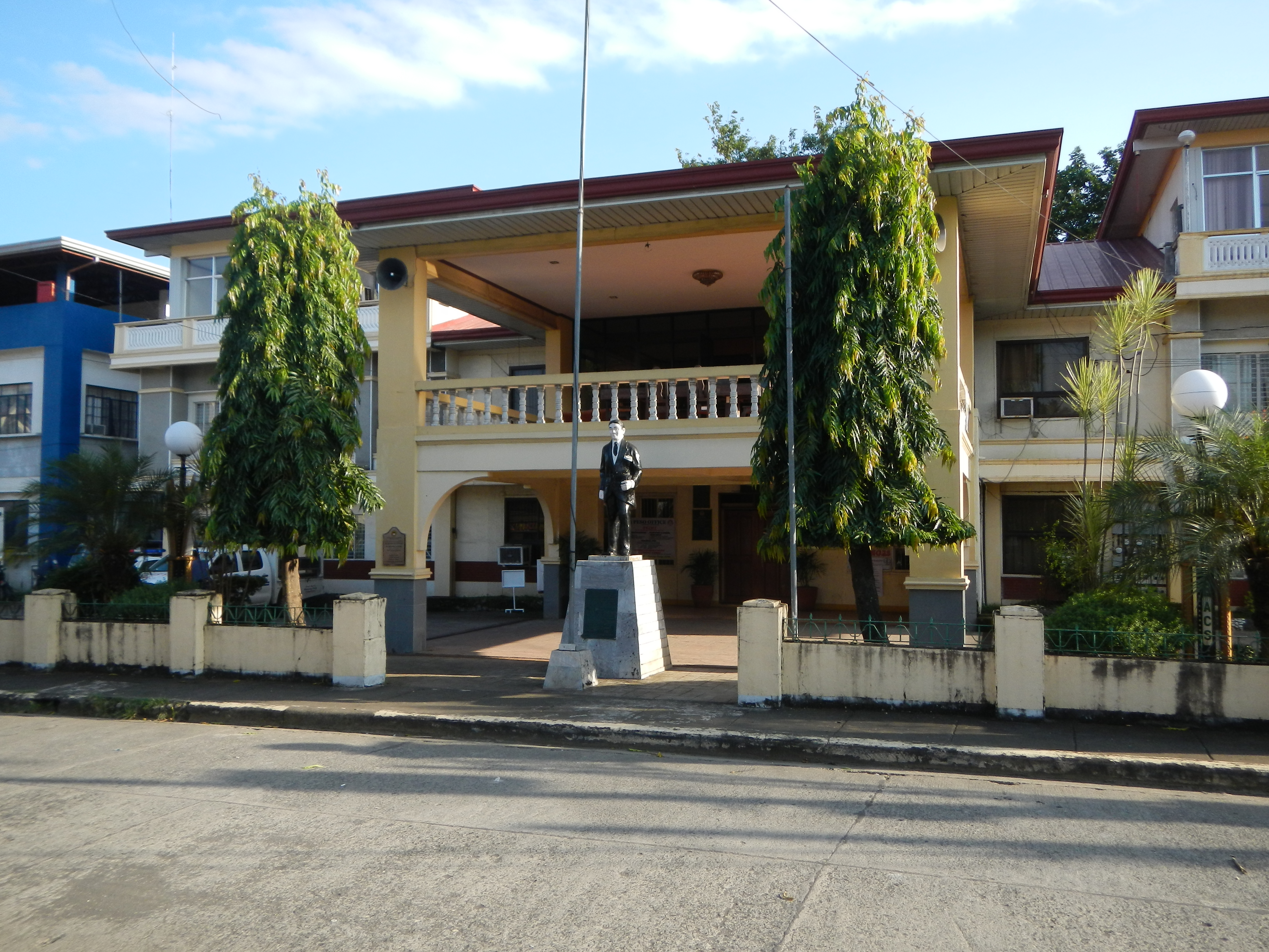 Upload Wizard photos of - Poblacion, the Agoncillo Municipal Hall, and other Municipal Office, Police station - Agoncillo, Batangas[1].